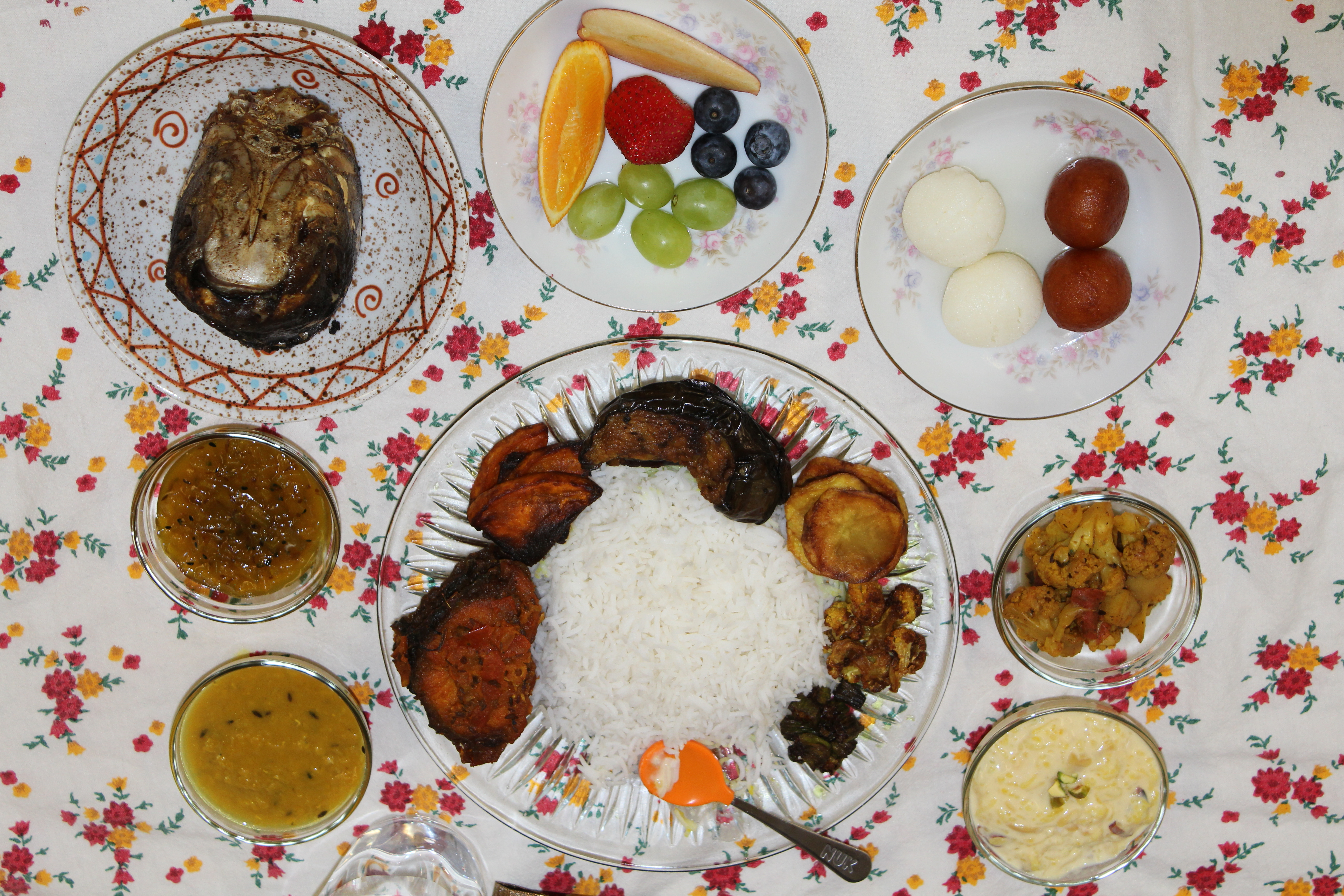 Rice is served to a 6M old baby in the main dish with five fried vegetables and a fish with various side dishes (Dal,Mango Pickles, Fried Fish Head, Five Fruits, Sweet including Bengali Rasagolla, Curry with potato and cauliflower, and Rice pudding (Payes or Paramanna) made with Rice, milk, sugar, nuts, and raisins.